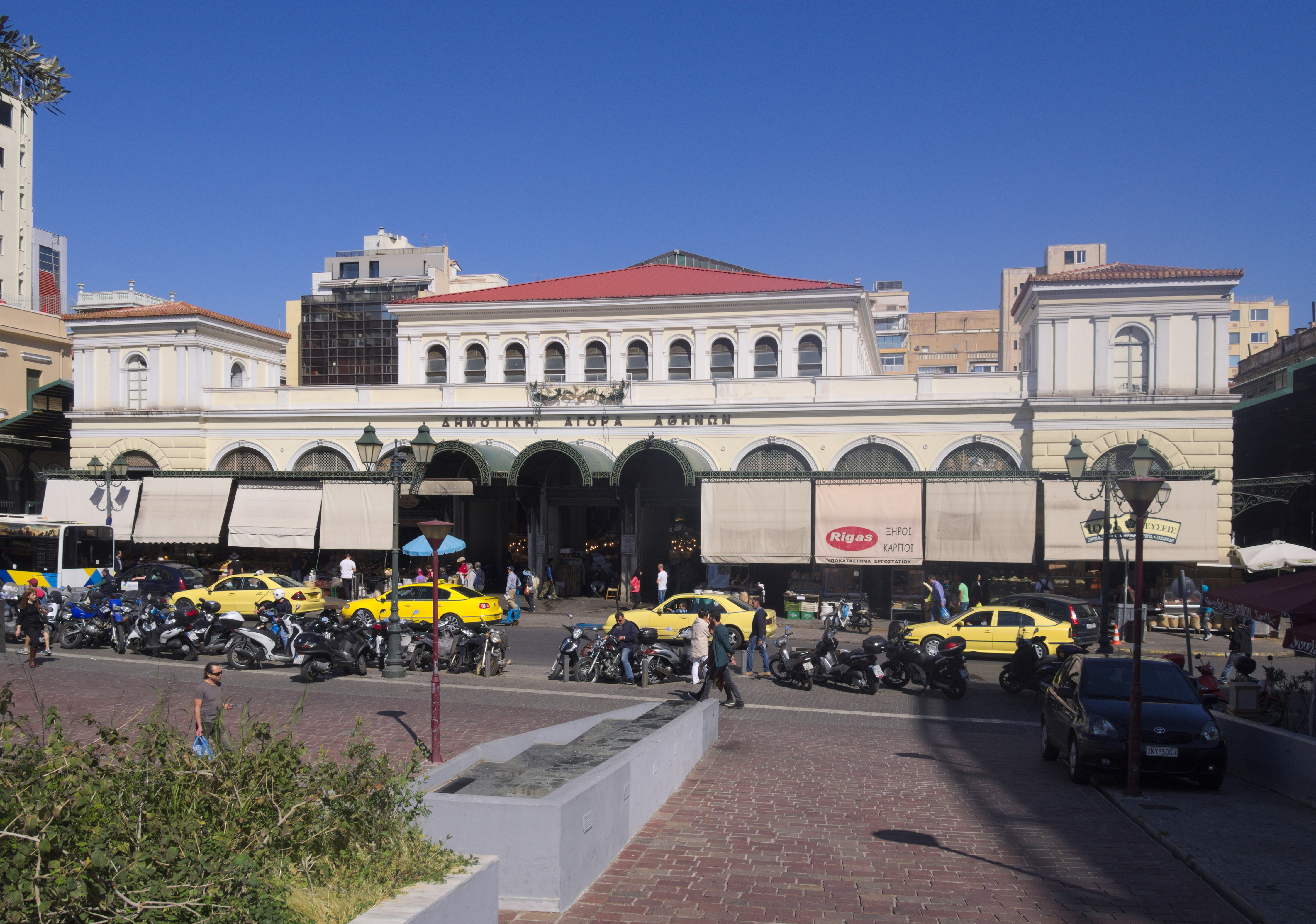 Athens Central Market (or Varvakeios), as seen from the square across the street (Varvakeios Market square). The market was constracted in 1878-1886.